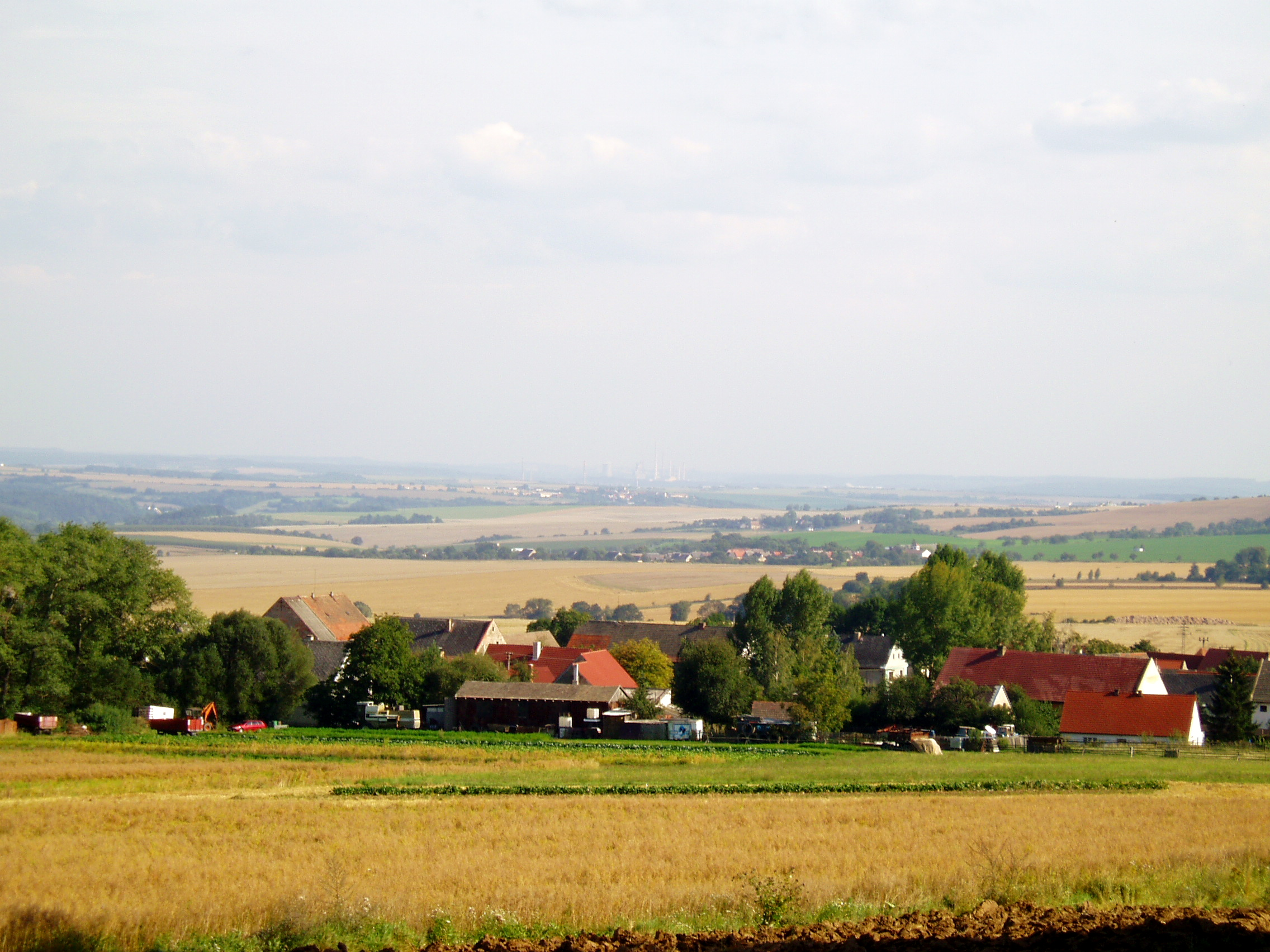 village Mladé